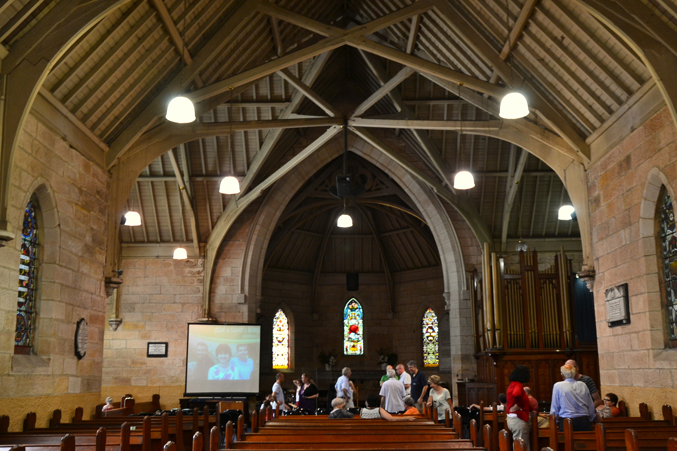 St Matthias, Paddington, Sydney